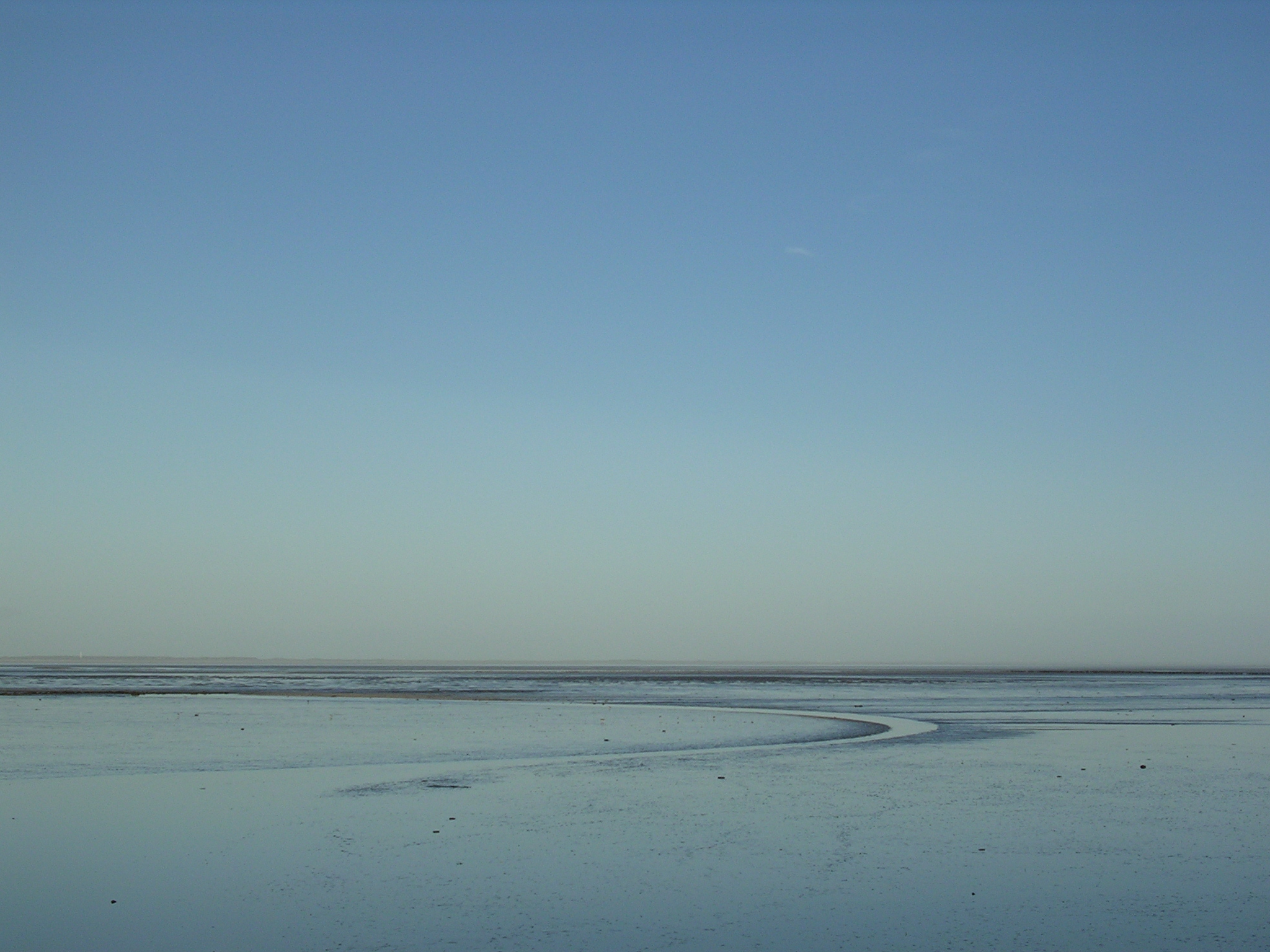 It waad by Peazens (The waddensee north of the village of Paesens)